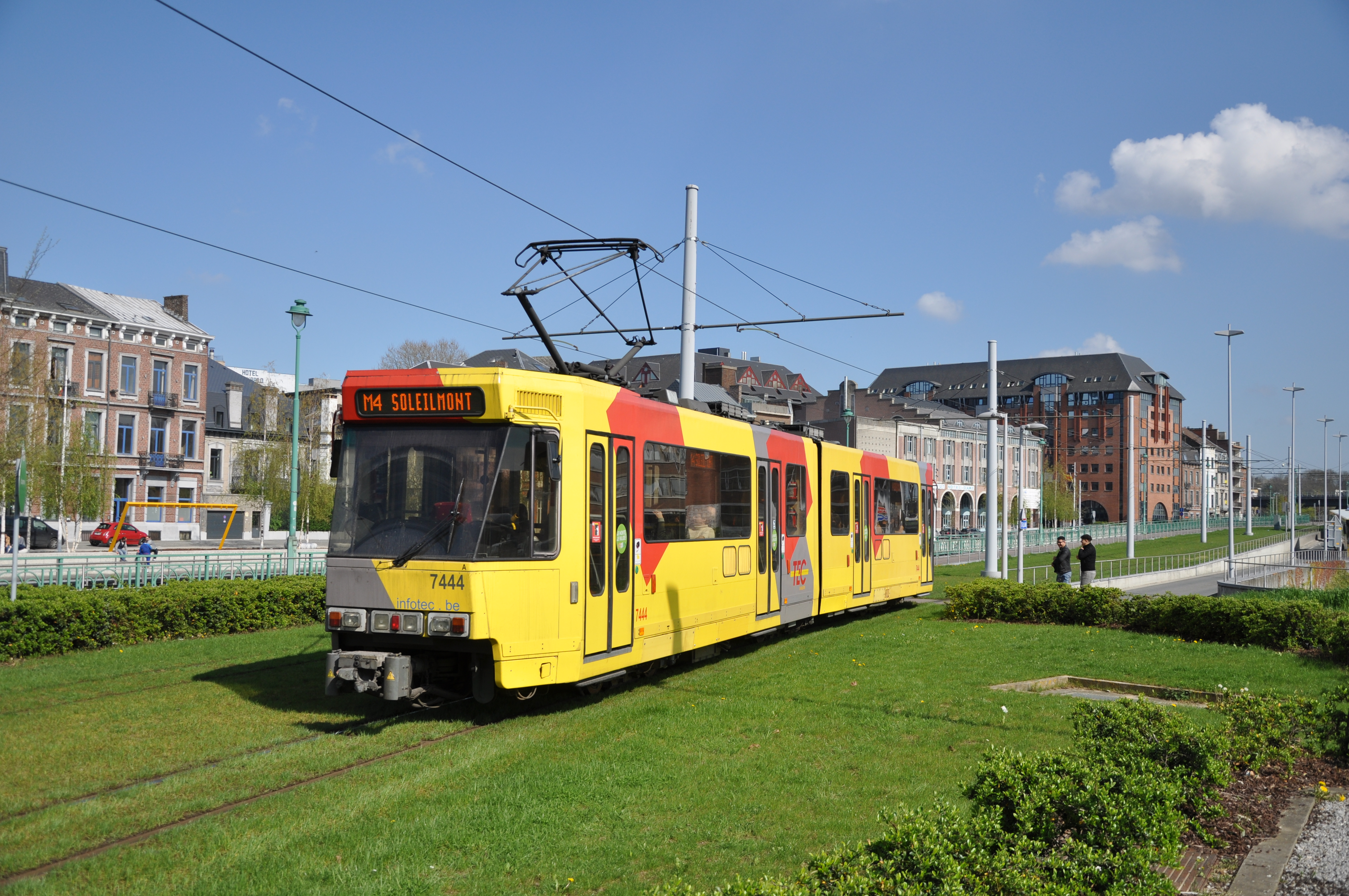 Metro Charleroi near Charleroi Sud